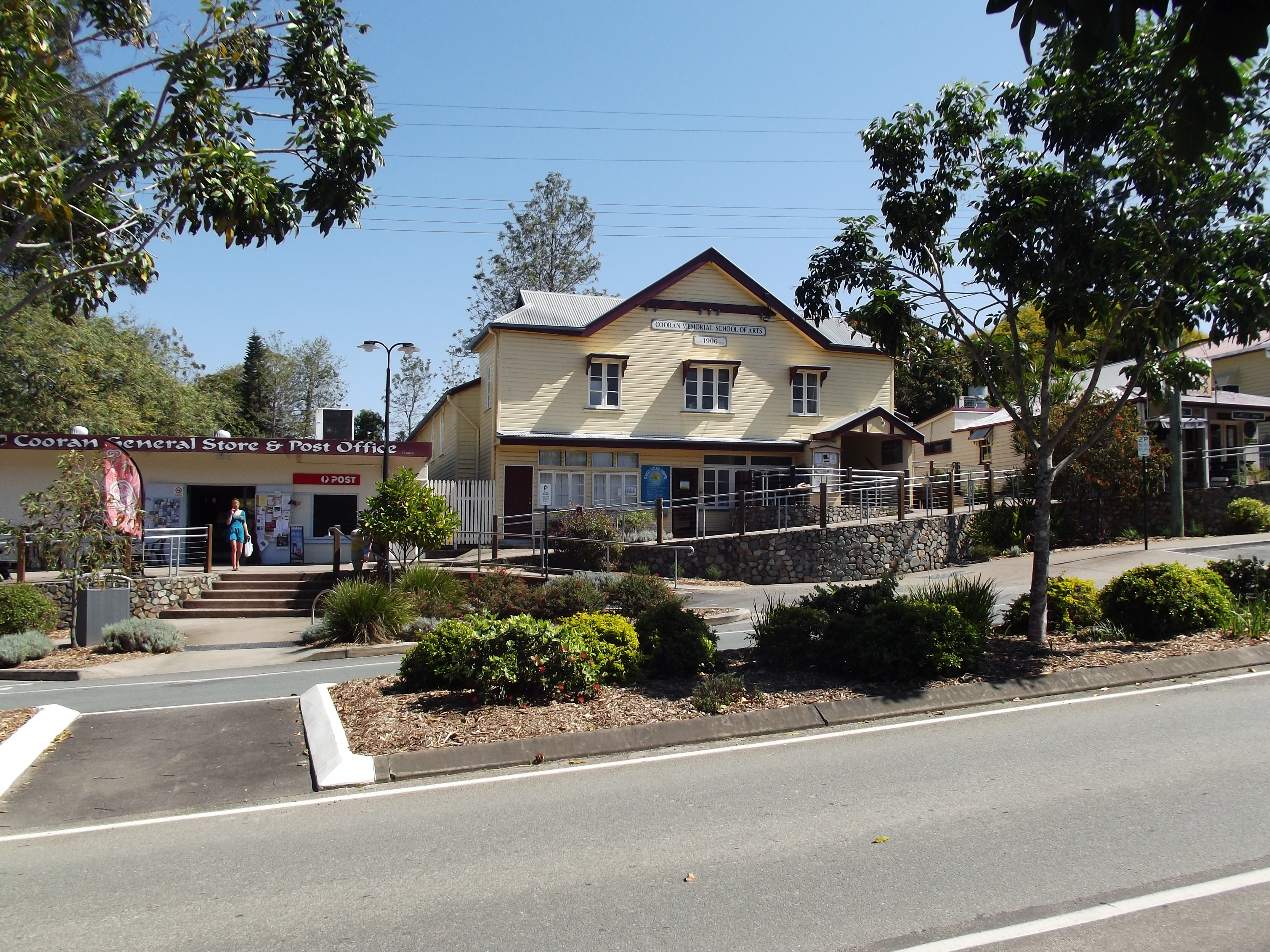 Shops and street in Cooran, Queensland, Australia.